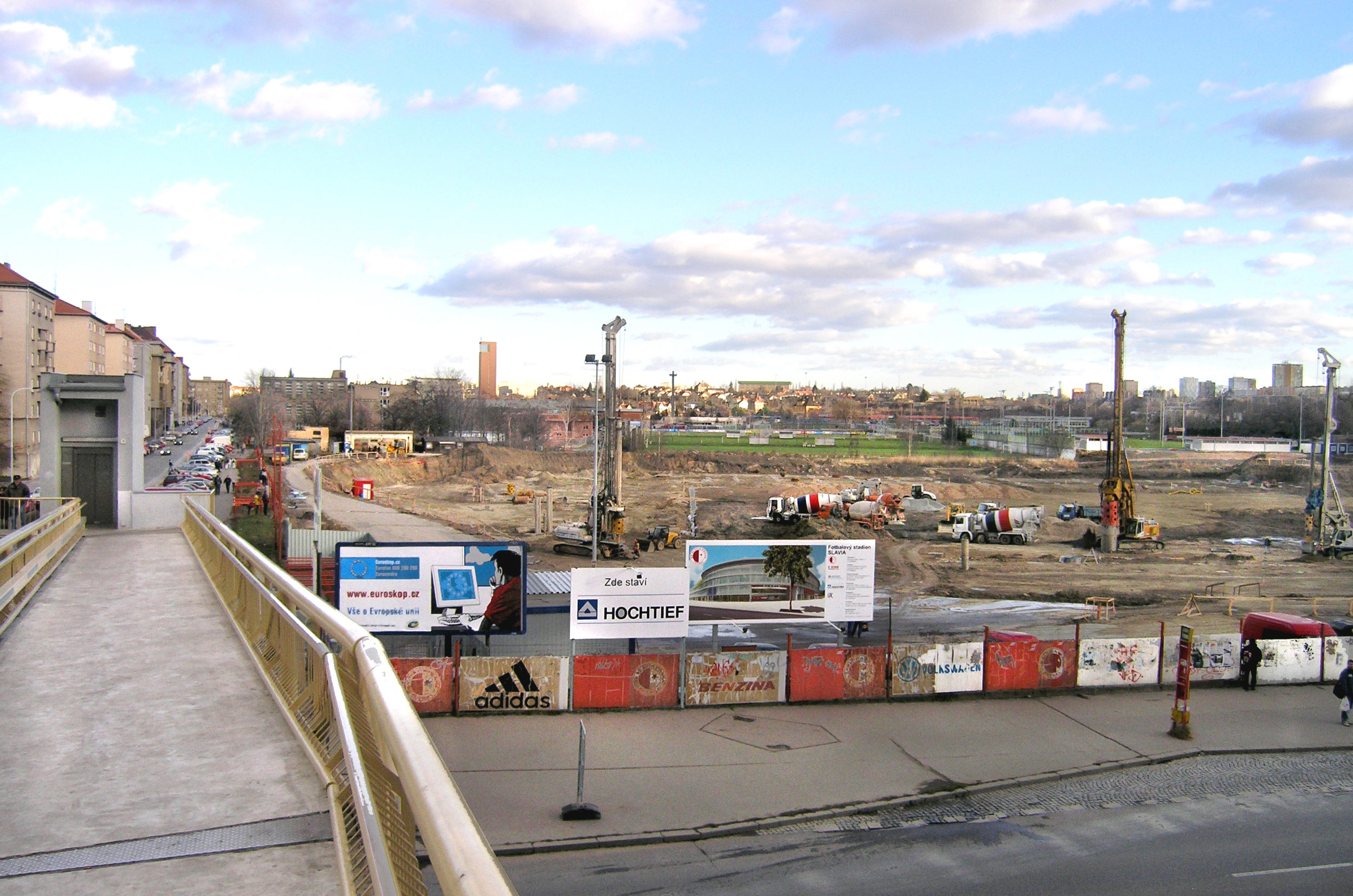 Eden soccer stadium, stage zero. Prague